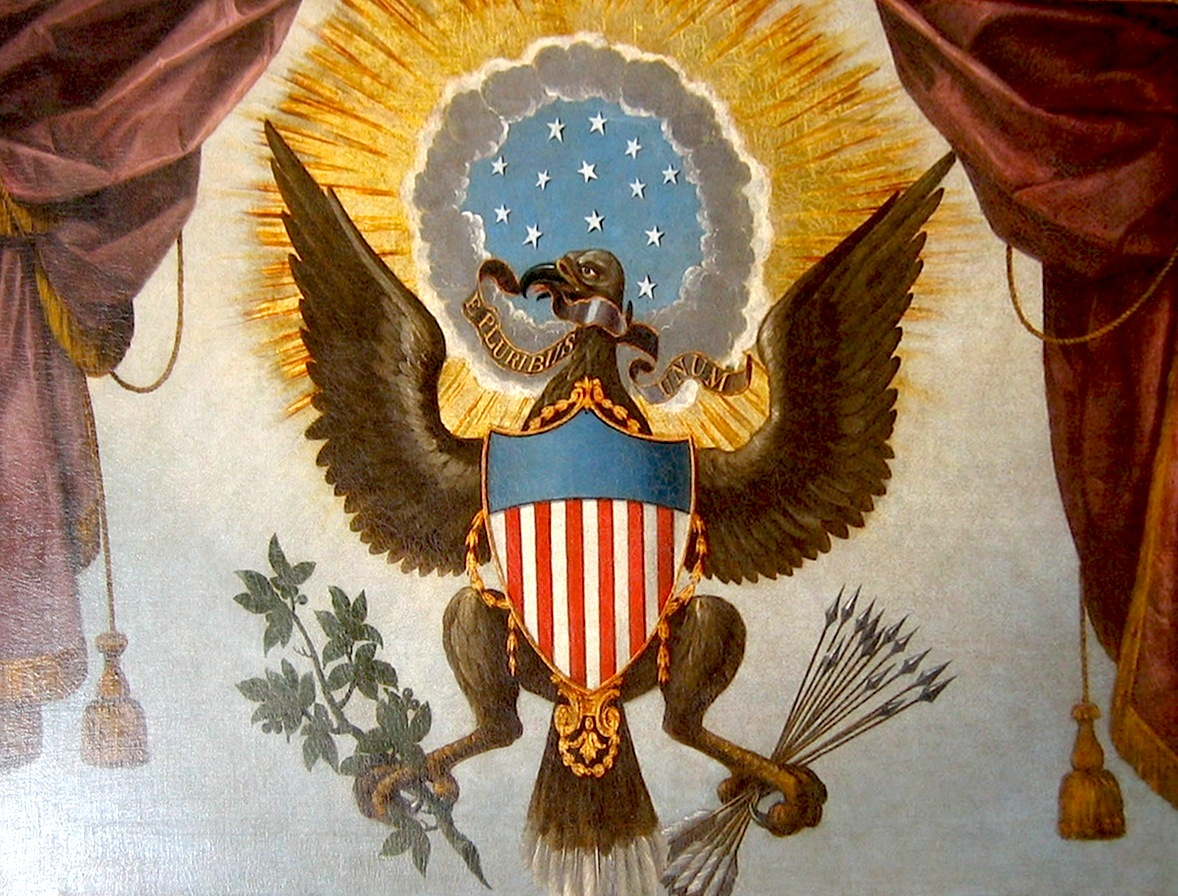 Painting of the Great Seal of the United States, hanging in St. Paul's Chapel in New York City. This is one of the earliest known versions of the Great Seal, painted according to the original description. It dates from at least 1786 (the seal itself was not defined until 1782), and the artist is unknown.